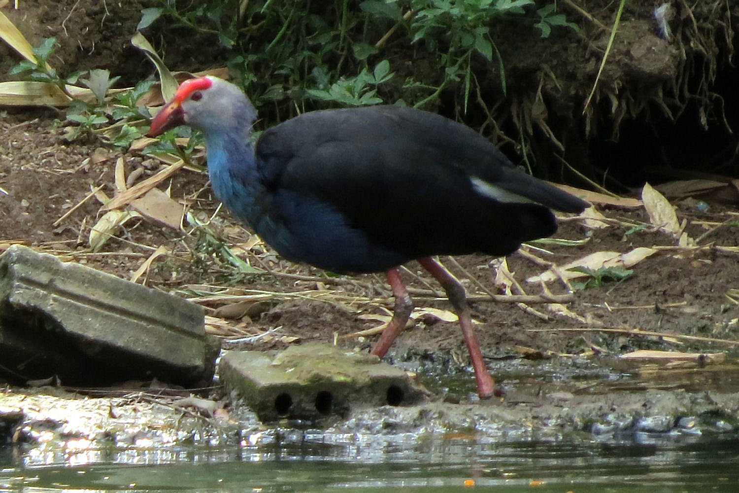 Black-backed Swamphen (Porphyrio indicus), Saigon Zoo, Ho Chi Minh City, Vietnam